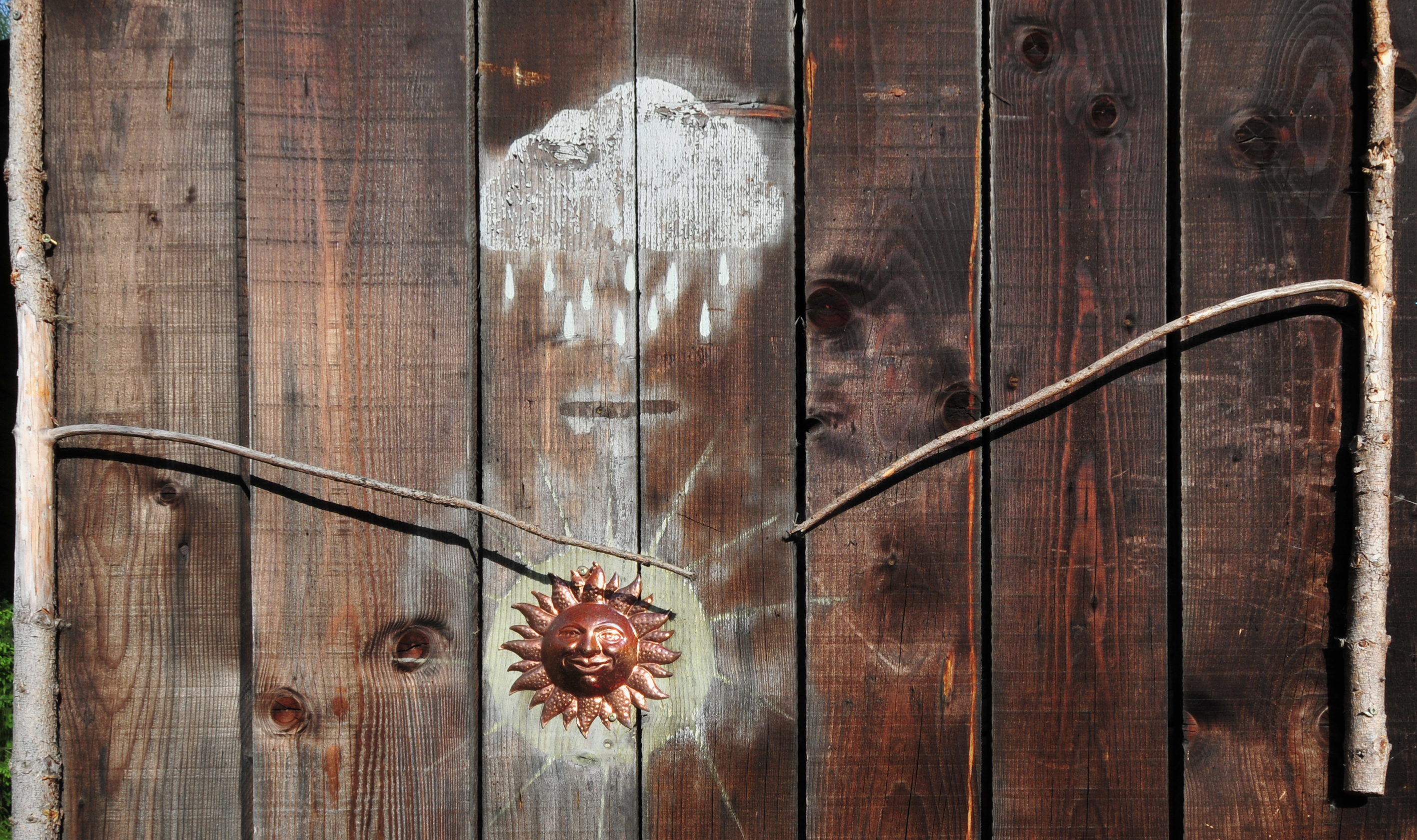 Weather station in bygone days in Bleiberg Kreuth, Carinthia, Austria.